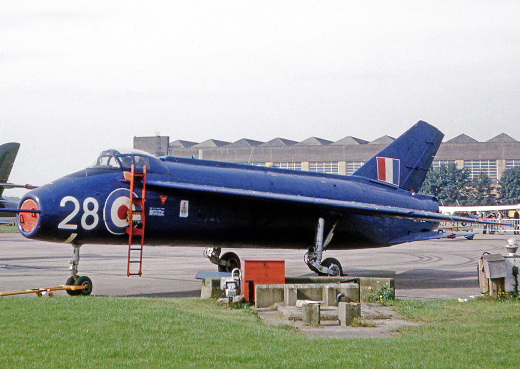 Short SB.5 test aircraft WG768 wearing the '28' code of the Empire Test Pilot School at RAF Finningley in 1969